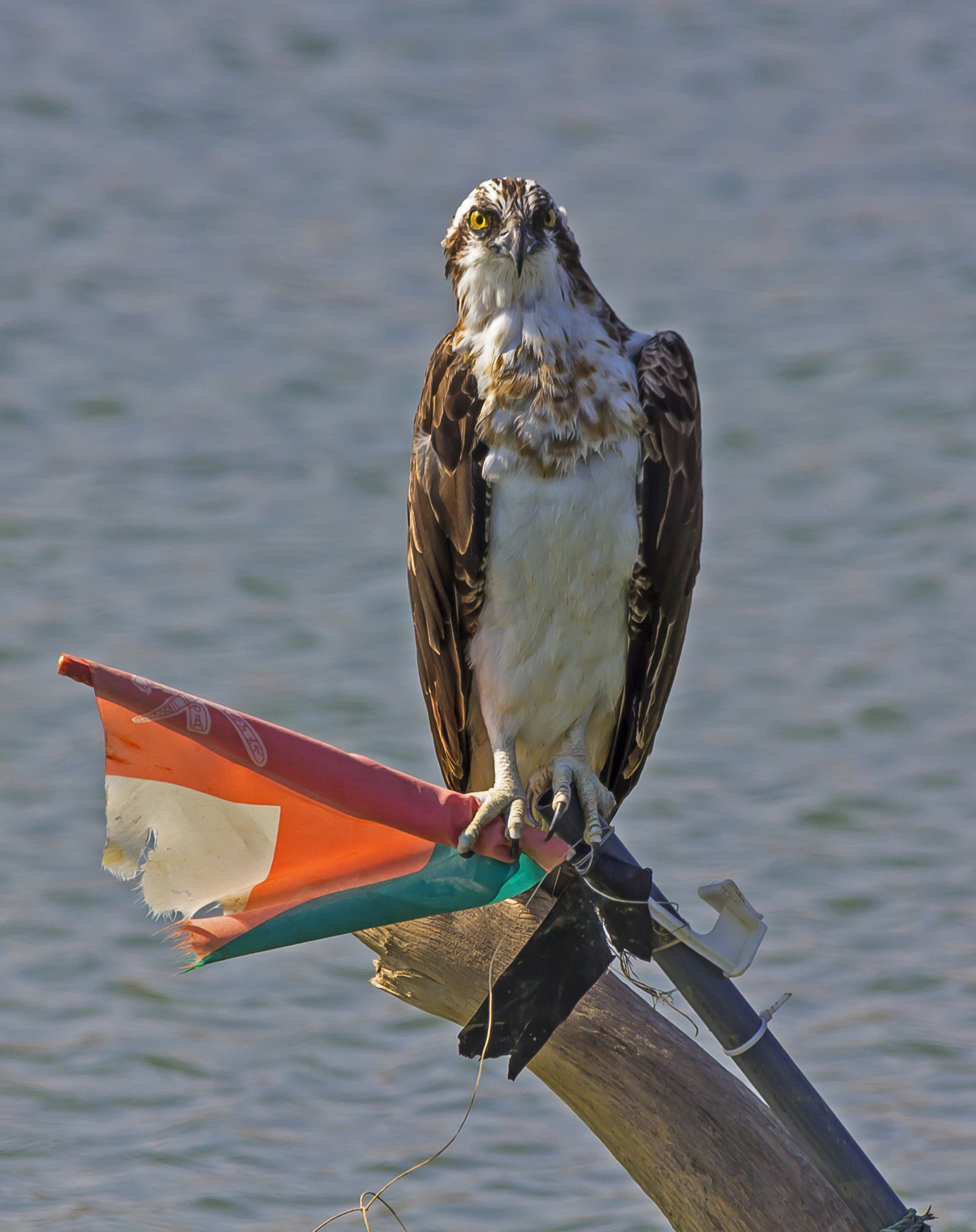 Osprey in Yiti Beach,Oman